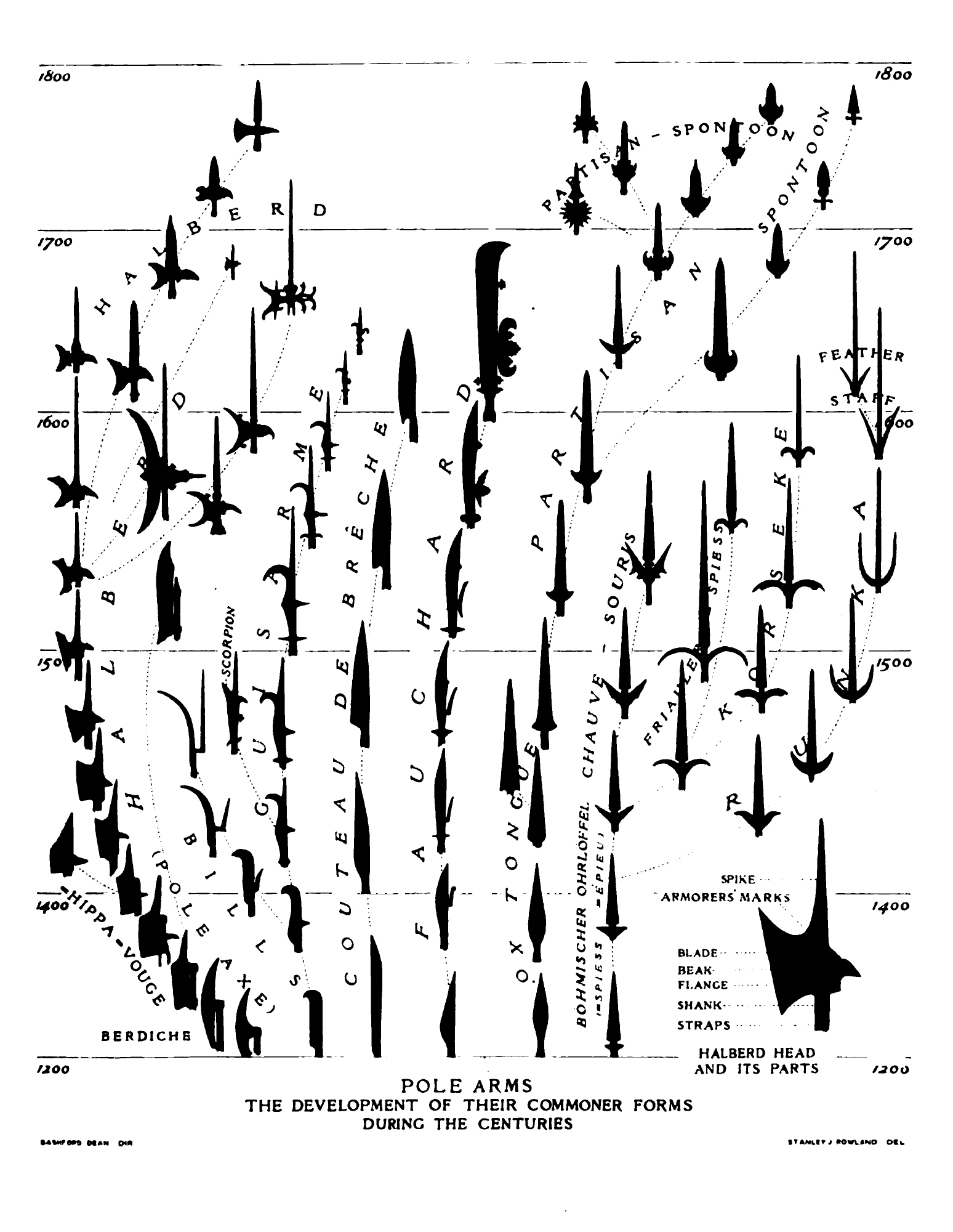 Pole Arms: The Developement of Their Commoner Forms During the Centuries